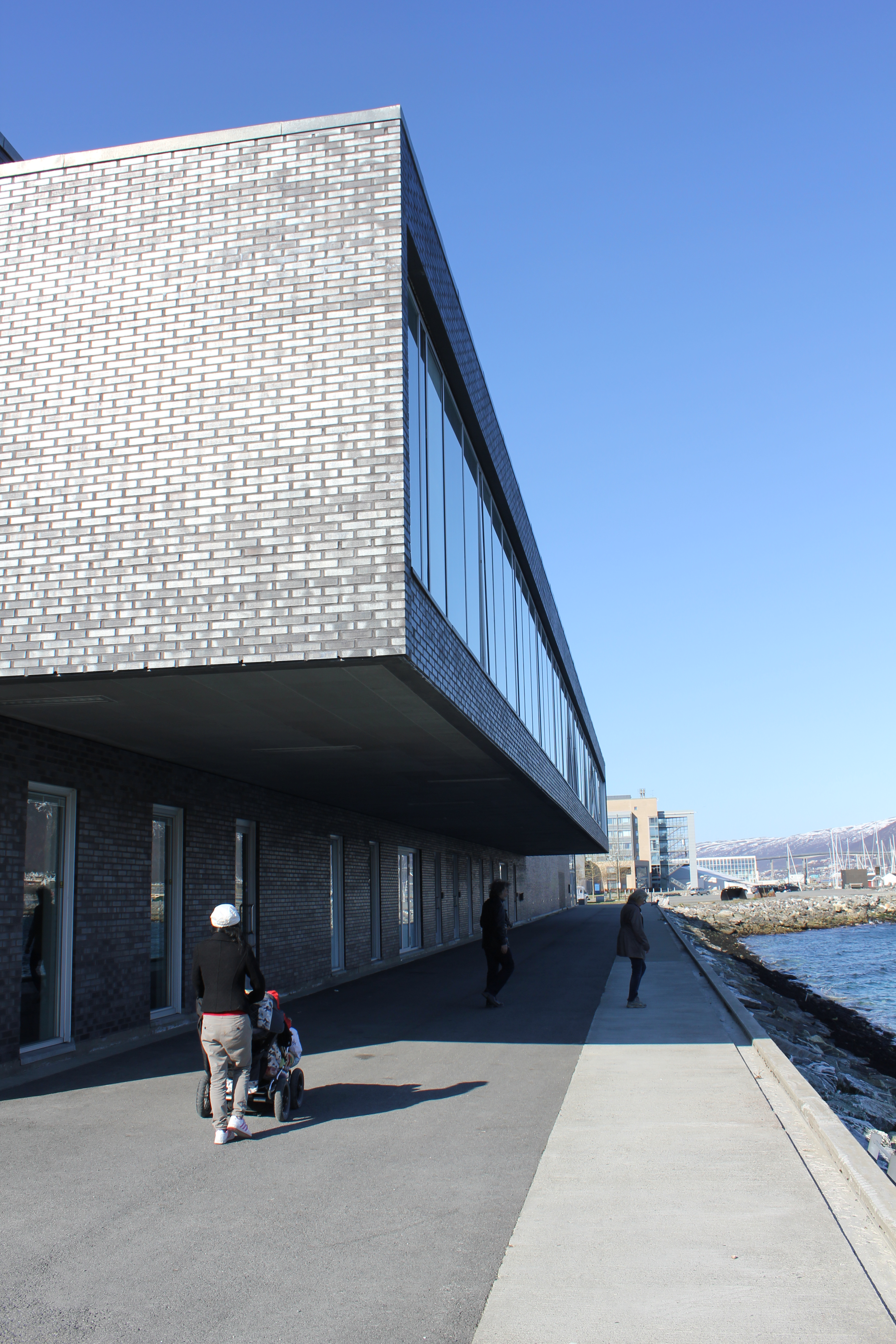 Hålogaland Teater in Tromsø.